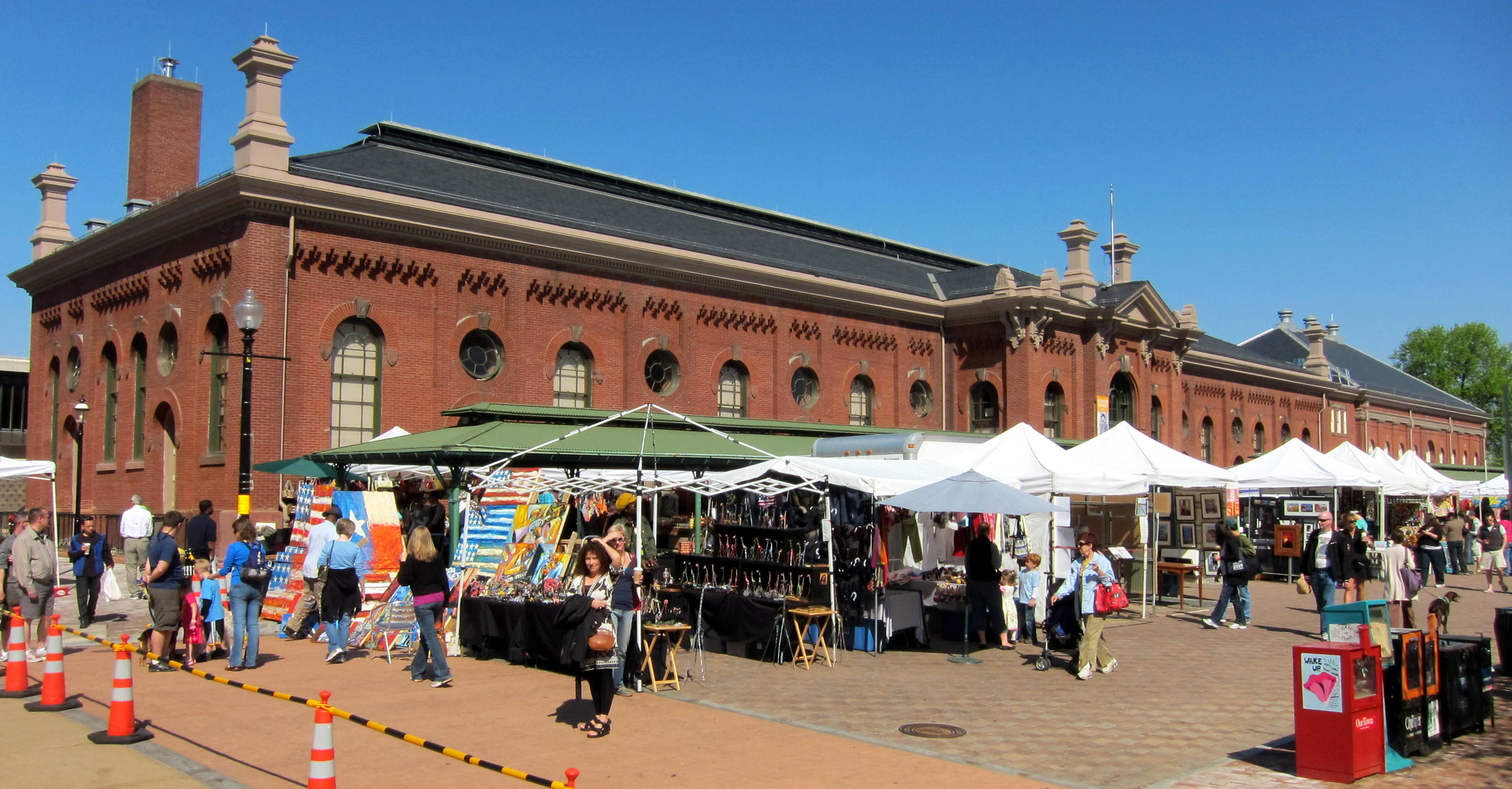 Eastern Market, located at the intersection of 7th and C Streets, S.E., in the Capitol Hill neighborhood of Washington, D.C. Built 1871–1873 to the designs of noted architect Adolf Cluss, Eastern Market is an example of Italianate architecture. The building was listed on the National Register of Historic Places (NRHP) in 1971, and is designated as a contributing property to the Capitol Hill Historic District, listed on the NRHP in 1976.